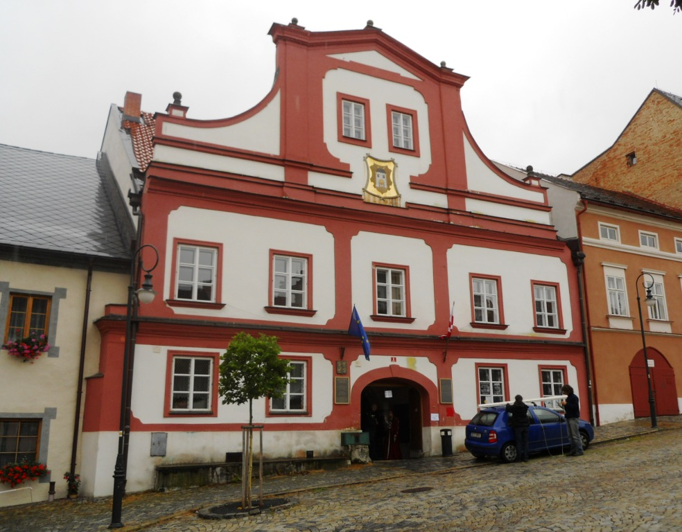 Vimperk, old town hall